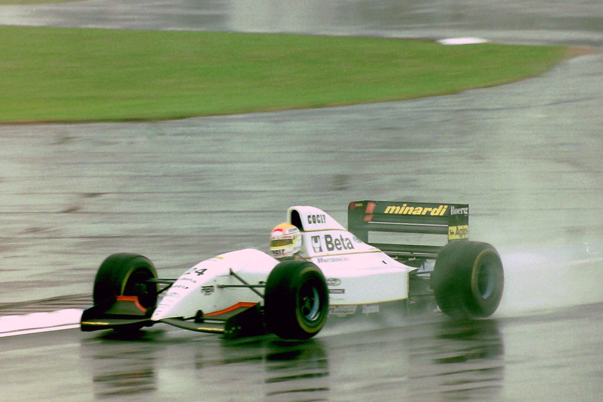 Pierluigi Martini - Minardi M193 during practice for the 1993 British Grand Prix